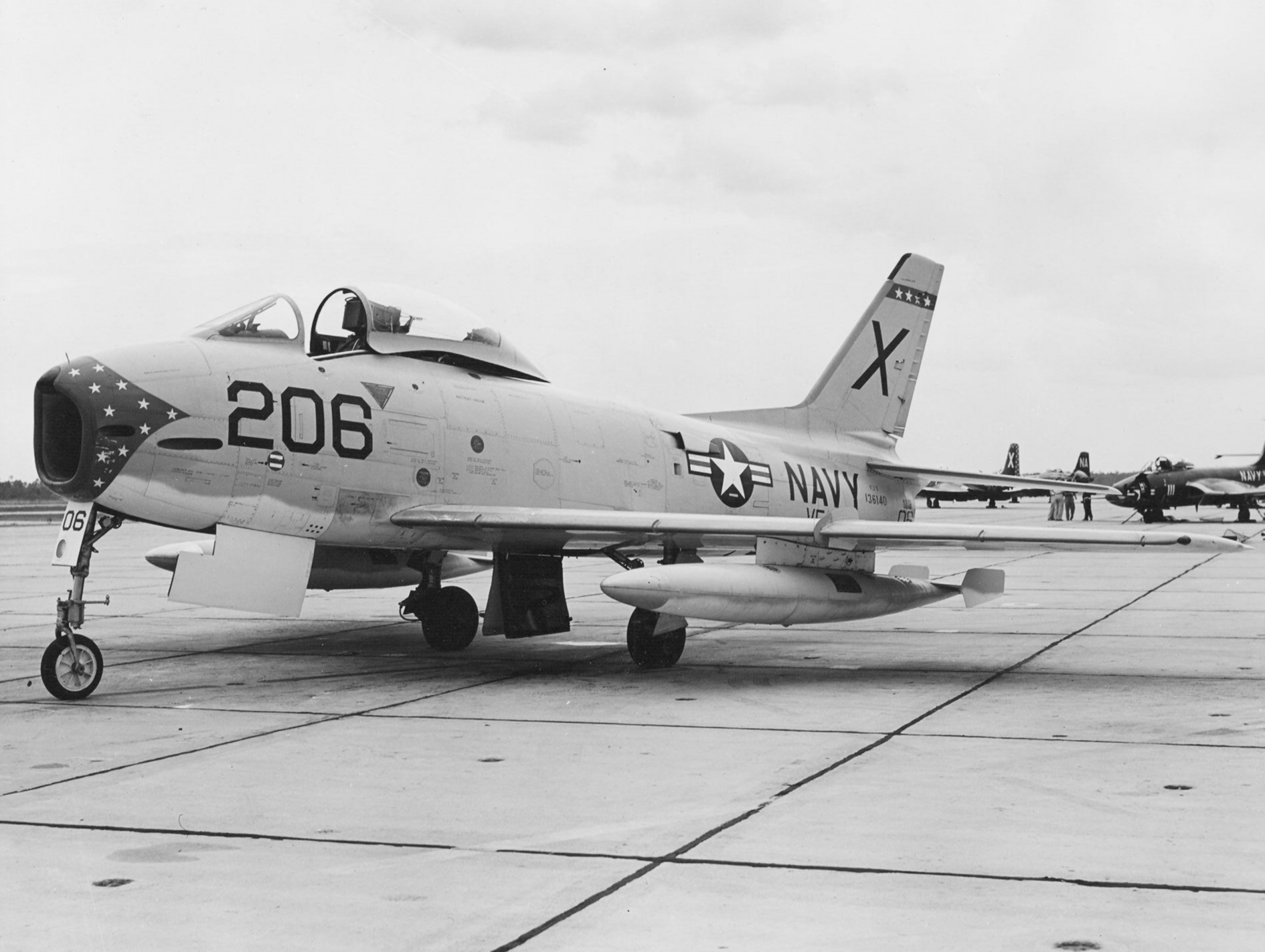 A U.S. Navy North American FJ-3 Fury assigned to Fighter Squadron VF-62 Boomerangs at Naval Air Station Cecil Field, Florida (USA), in June 1956. VF-62 would deploy with Air Task Group 202 (ATG-202) aboard the aircraft carrier USS Bennington (CVA-20) to the Mediterranean from 4 July 1956 to 19 February 1957.